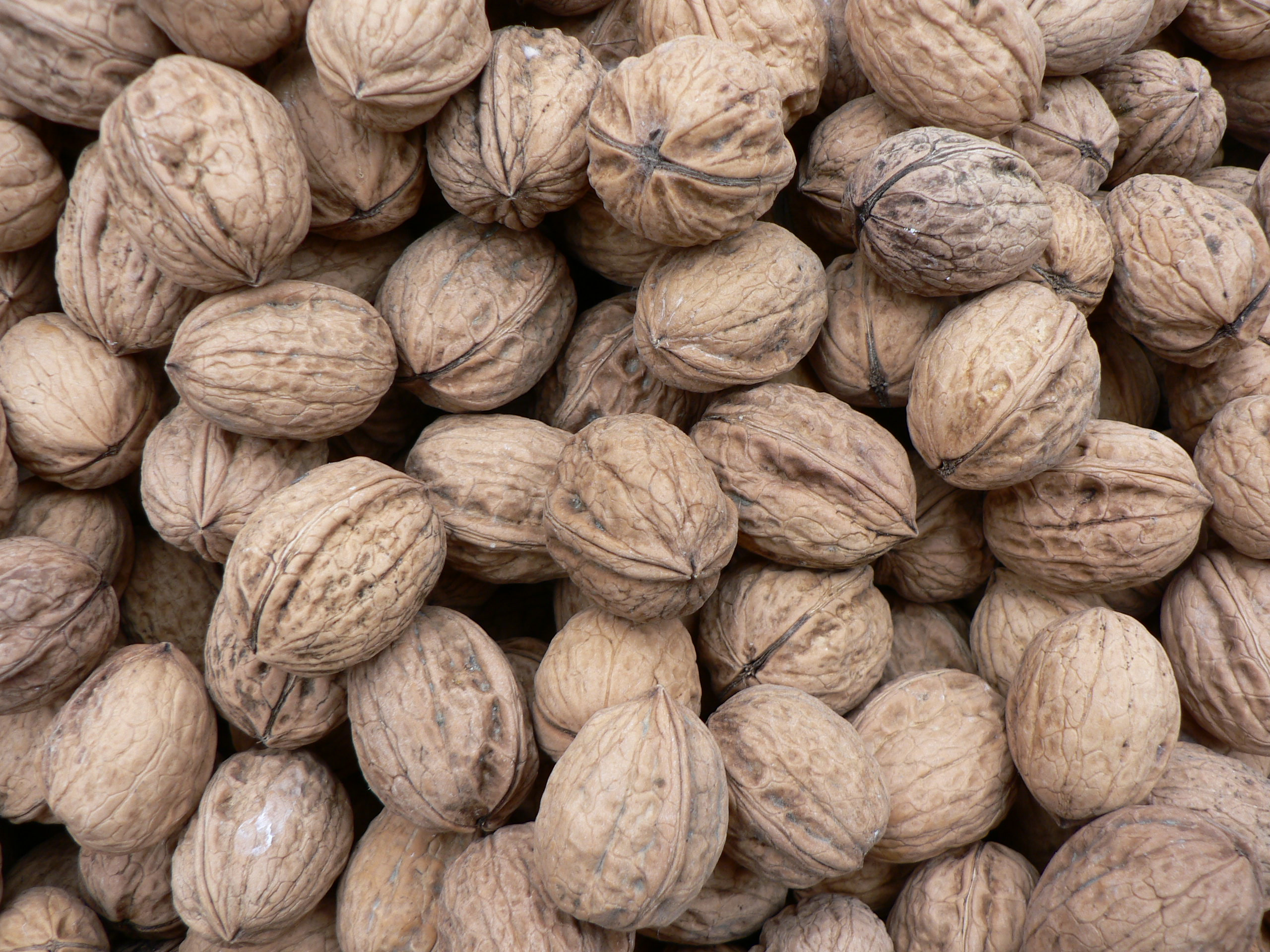 Walnuts